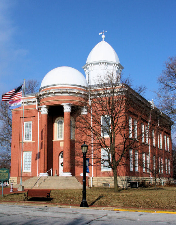 Photograph of Moniteau County, Missouri, courthouse in California, Missouri. Saturation tweaked to compensate for bleaching by strong light.